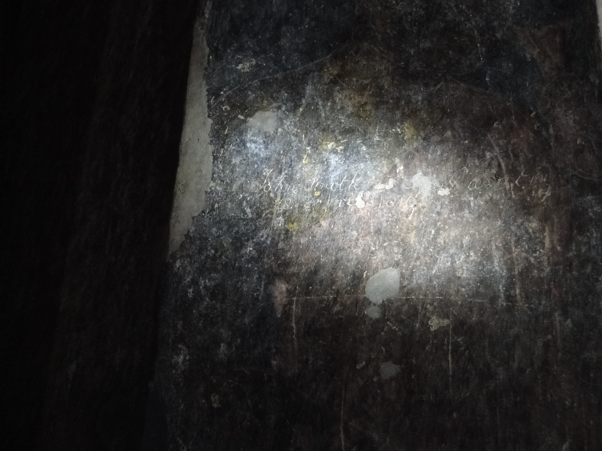 photograph of the pillar where John Smith was first shown the cave entrance. John Smith then vandalized the vibrant painting of the Bodhisattva with his name and date. This is in Ajanta cave no 10